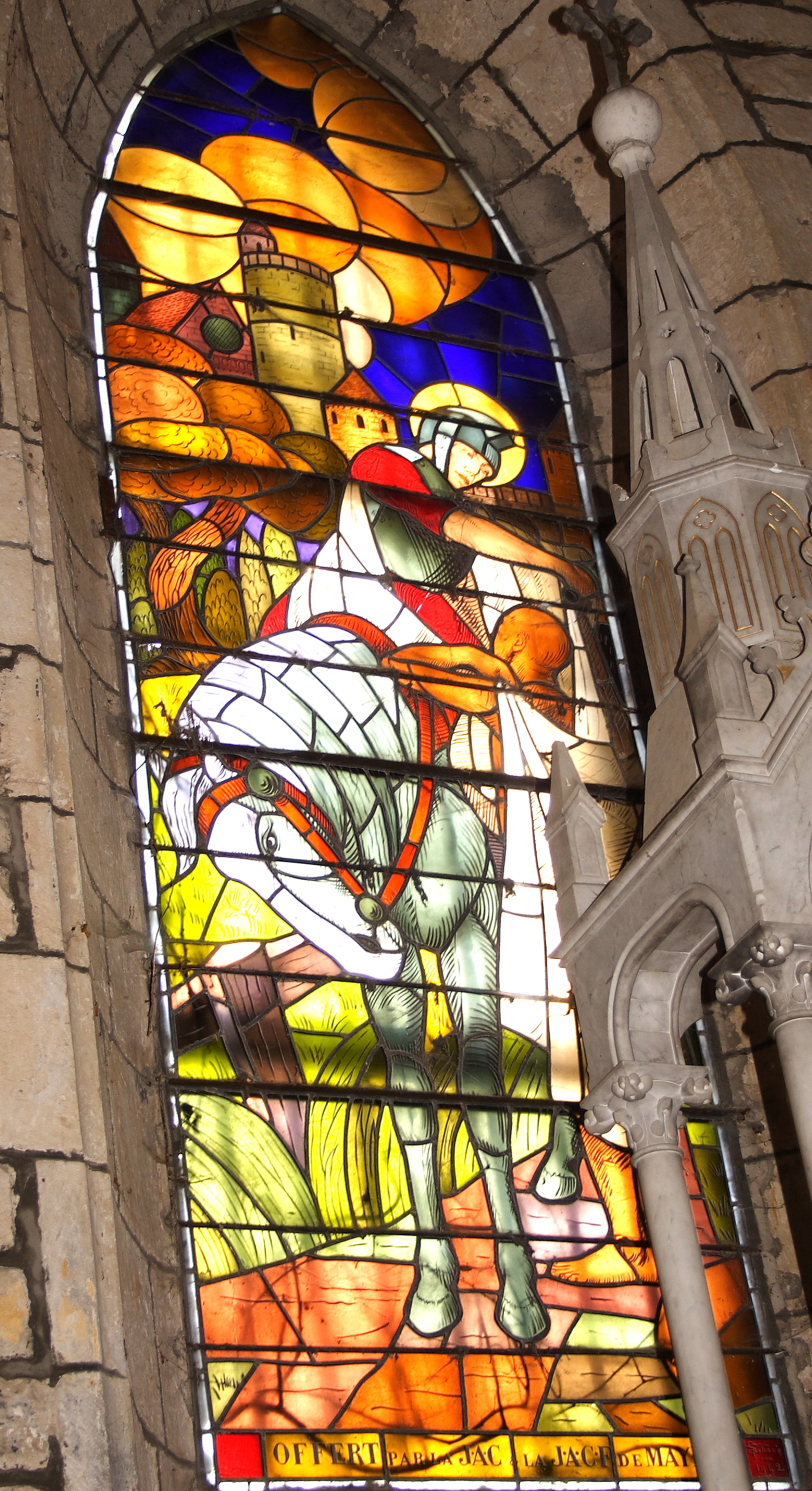 Stained-glass window of the Mayrac (Lot) church high-altar : Saint Martin sharing his coat by Georges Emile Lebacq.